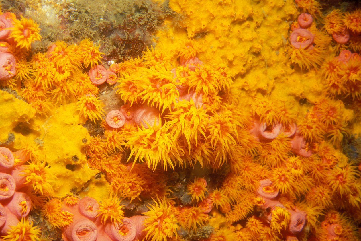 Coral Sol (or sun coral). Bright yellow polyps "bloom" under a rock ledge. Special thanks to Paulo Lopes, owner of PL Divers and Keidy "Serenissima" Beranger for making this photo possible.